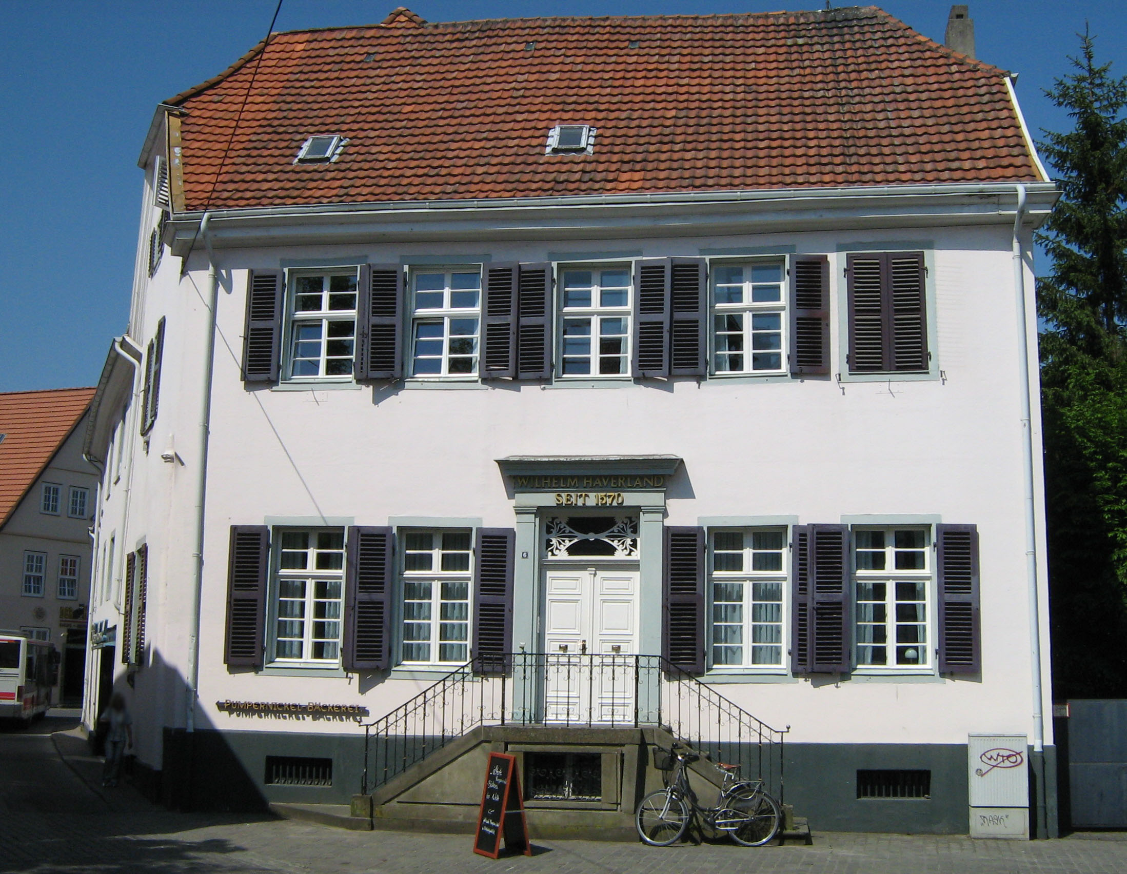 Haverland Bakery in Soest Germany founded in 1570 - oldest bakery of Pumpernickel alive